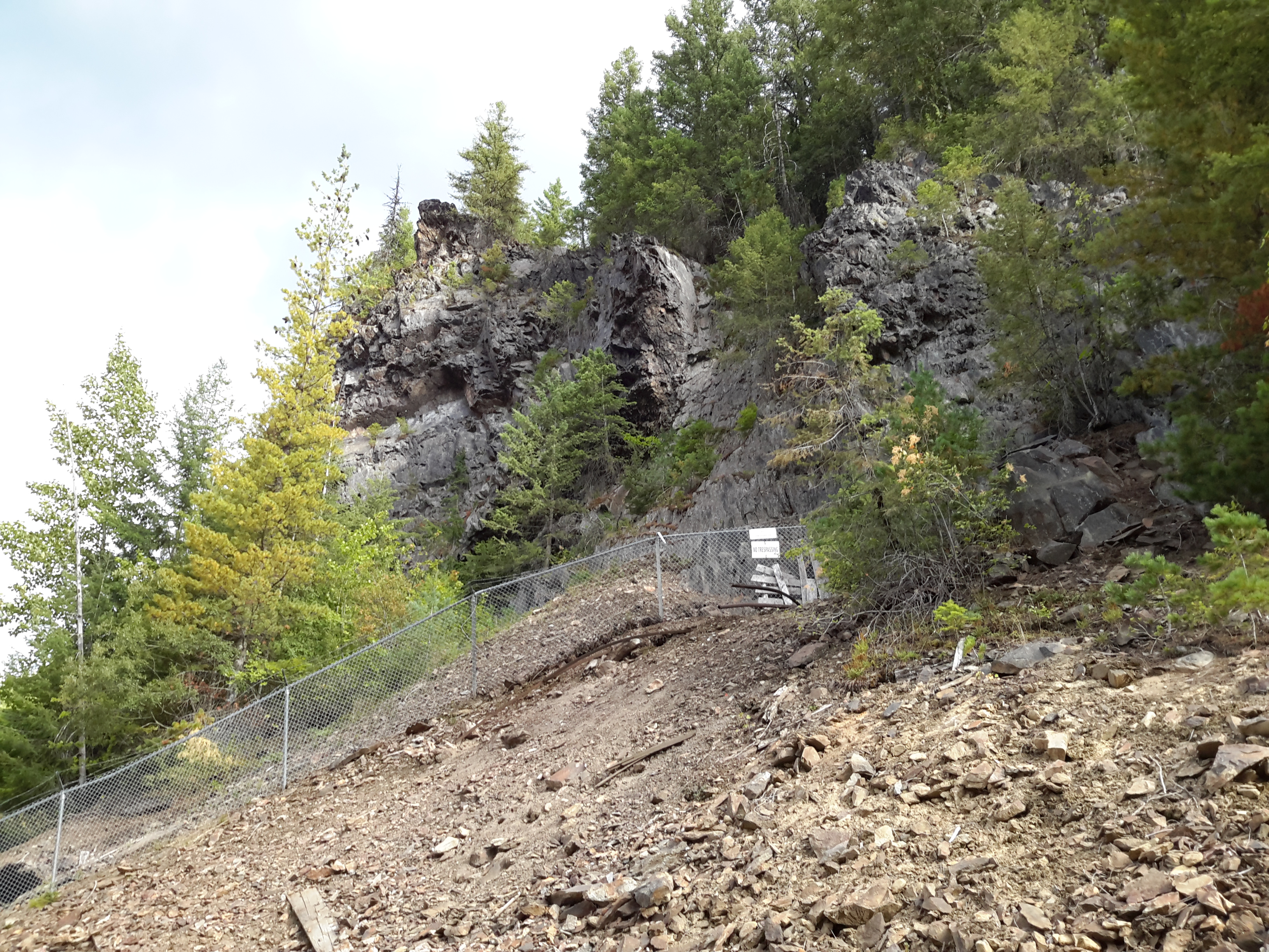 Located in Burke, Idaho, U.S.